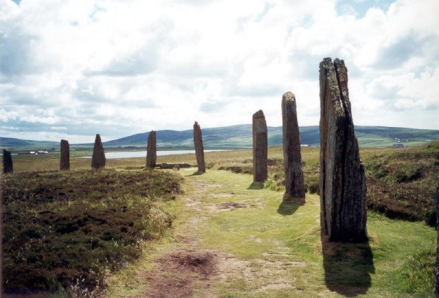 Ring of Brodgar.